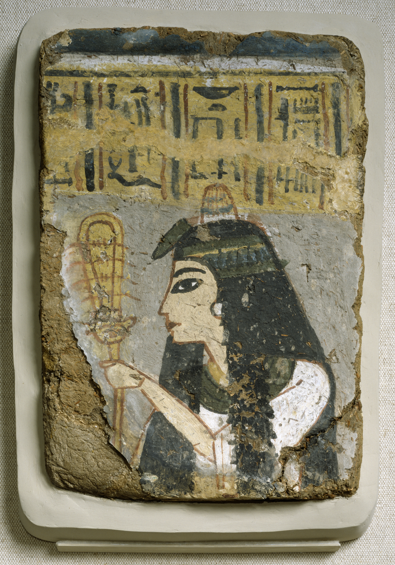 The woman in this fragmentary painting from a tomb wall has a wig of long, full hair, held in place by a flowered headband and topped with an ointment cone, a perfumed substance placed on wigs that gave off a fragrant aroma as it melted. A lotus blossom adorns the front of the headband. She holds a rattle called a sistrum, which women often played during temple ceremonies. What remains of the inscription suggests that she may have served with the temple staff of the god Amen.